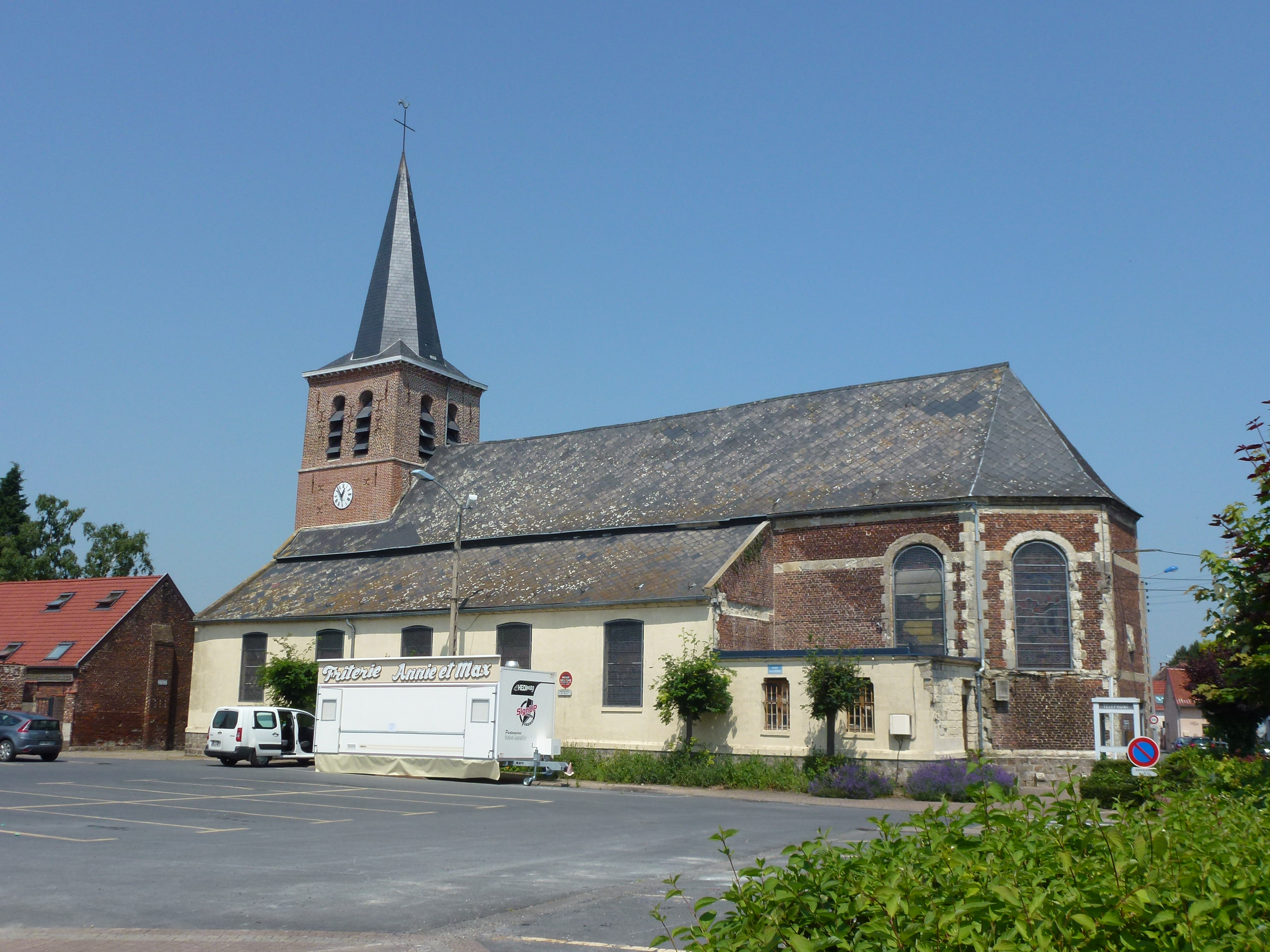 Erre (Nord, Fr) église